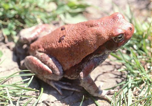 African red toad in Kenya